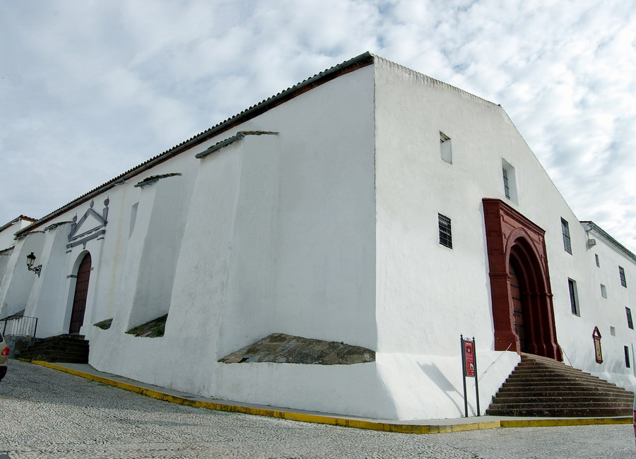 vista general de la Iglesia